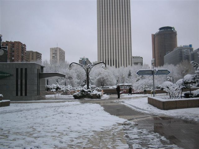 Snowfall in AZCA, a business park in Madrid (Spain).